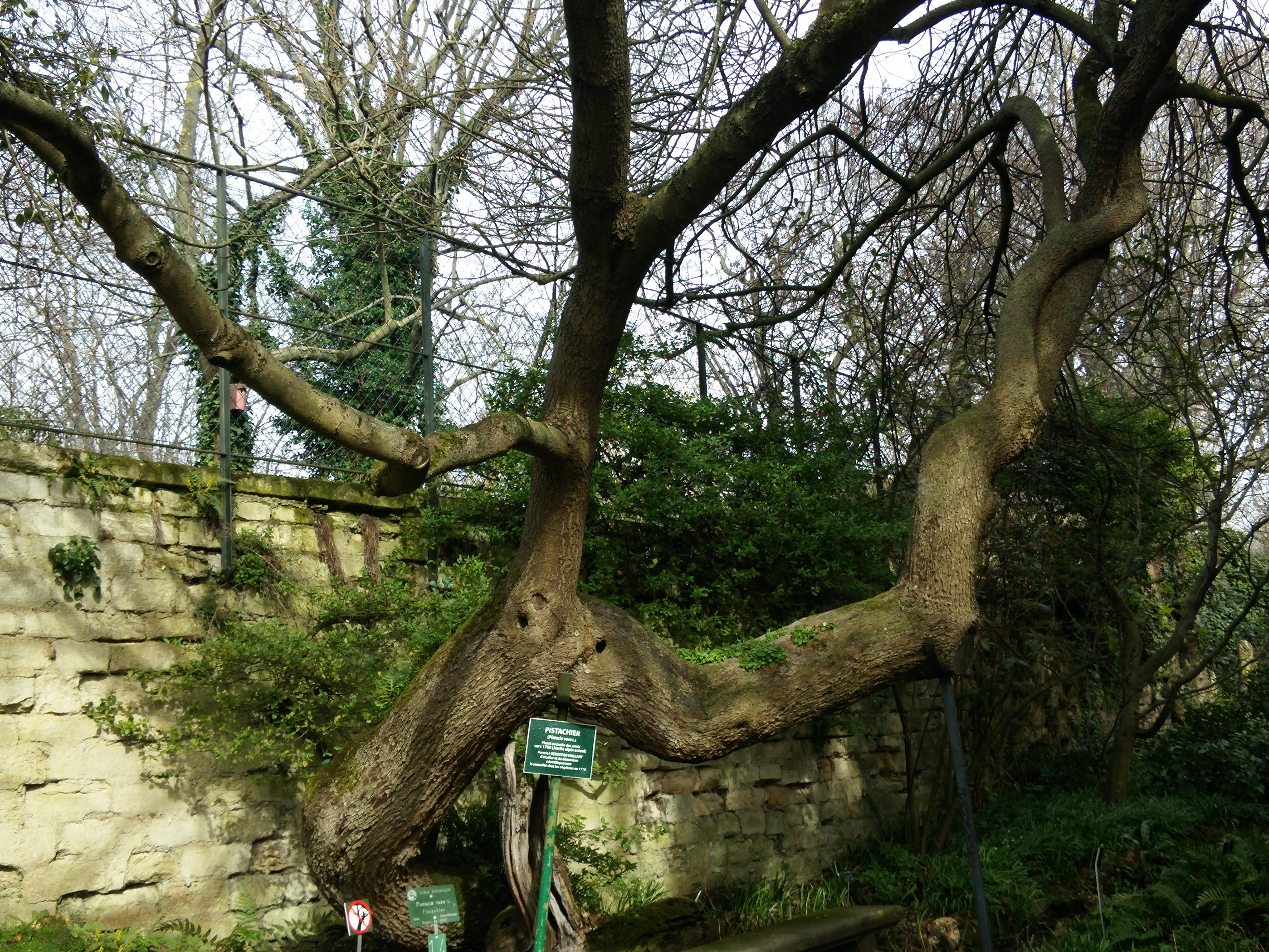 Pistacia vera in the Jardin des plantes, in Paris. Plant identified by its botanic labelling.